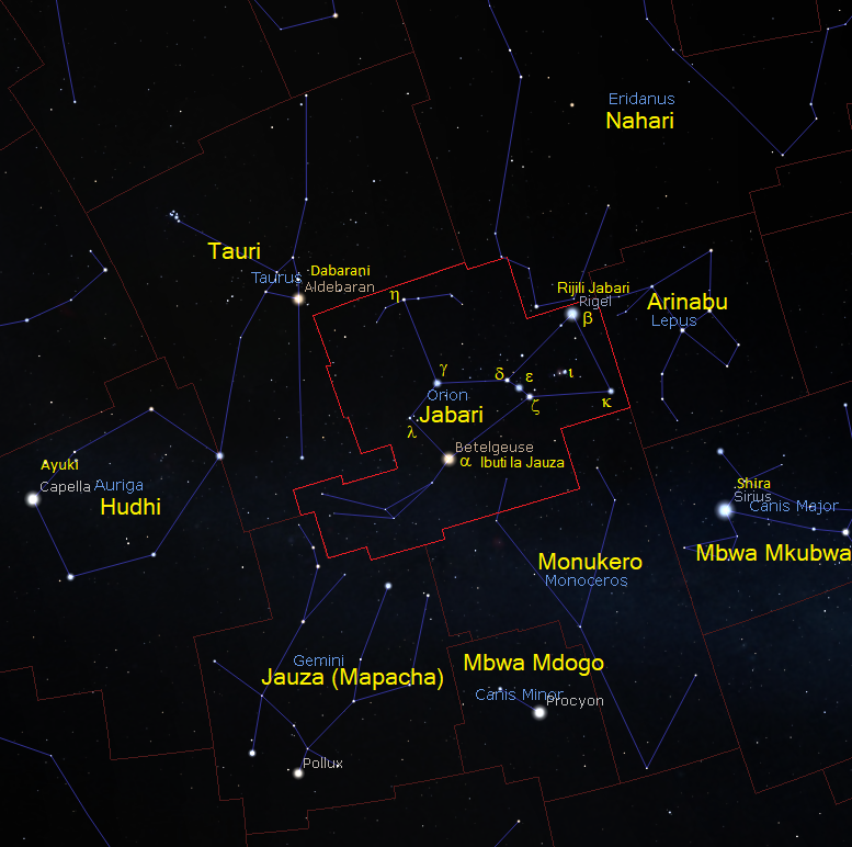 Constellation Orion as seen from Tanzania, Swahili labelled Kiswahili: Kundinyota Jabari (Orion) jinsi inavyoonekana kutoka Tanzania, majina kwa Kiswahili